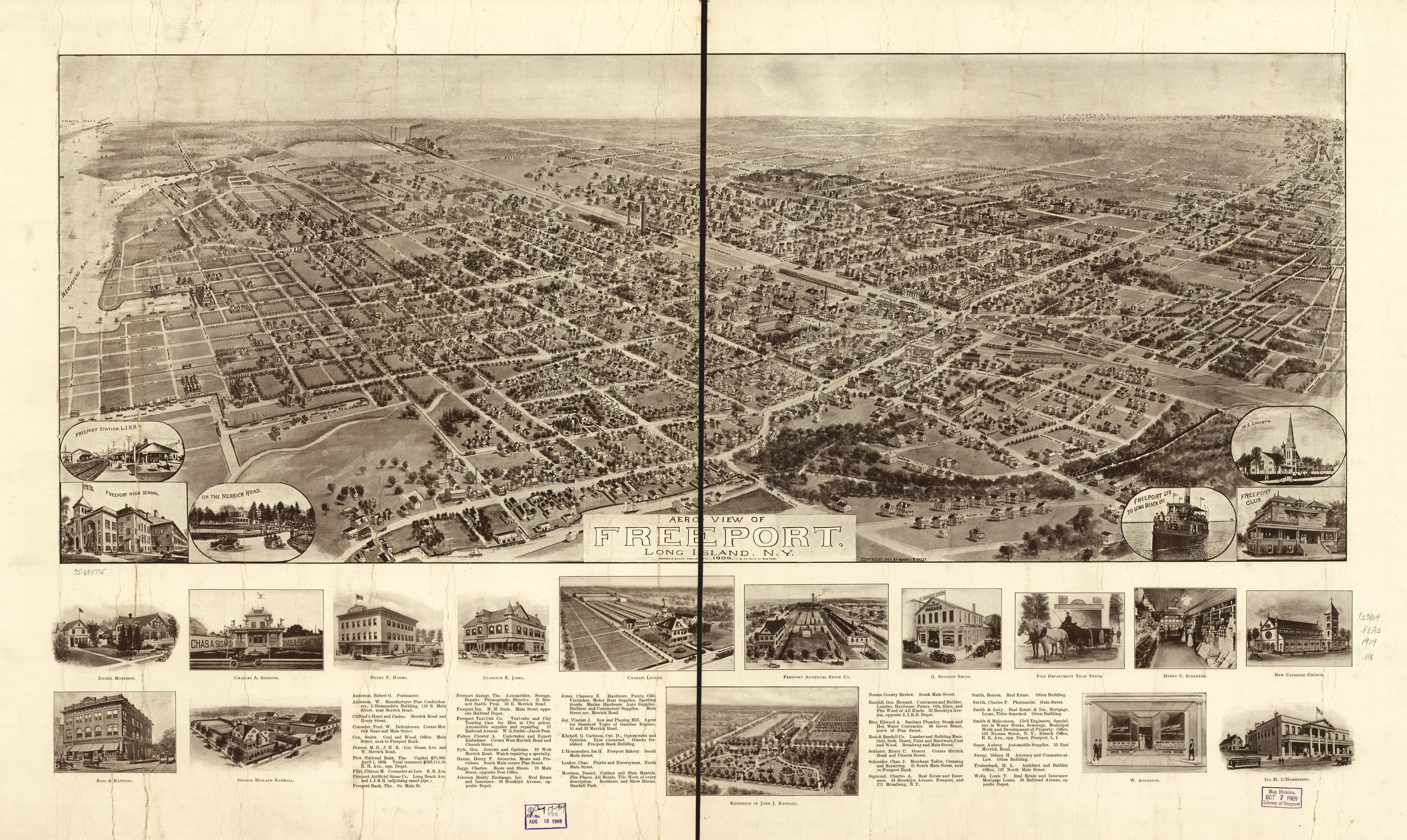 Bird's-eye view of Freeport, New York, circa 1909